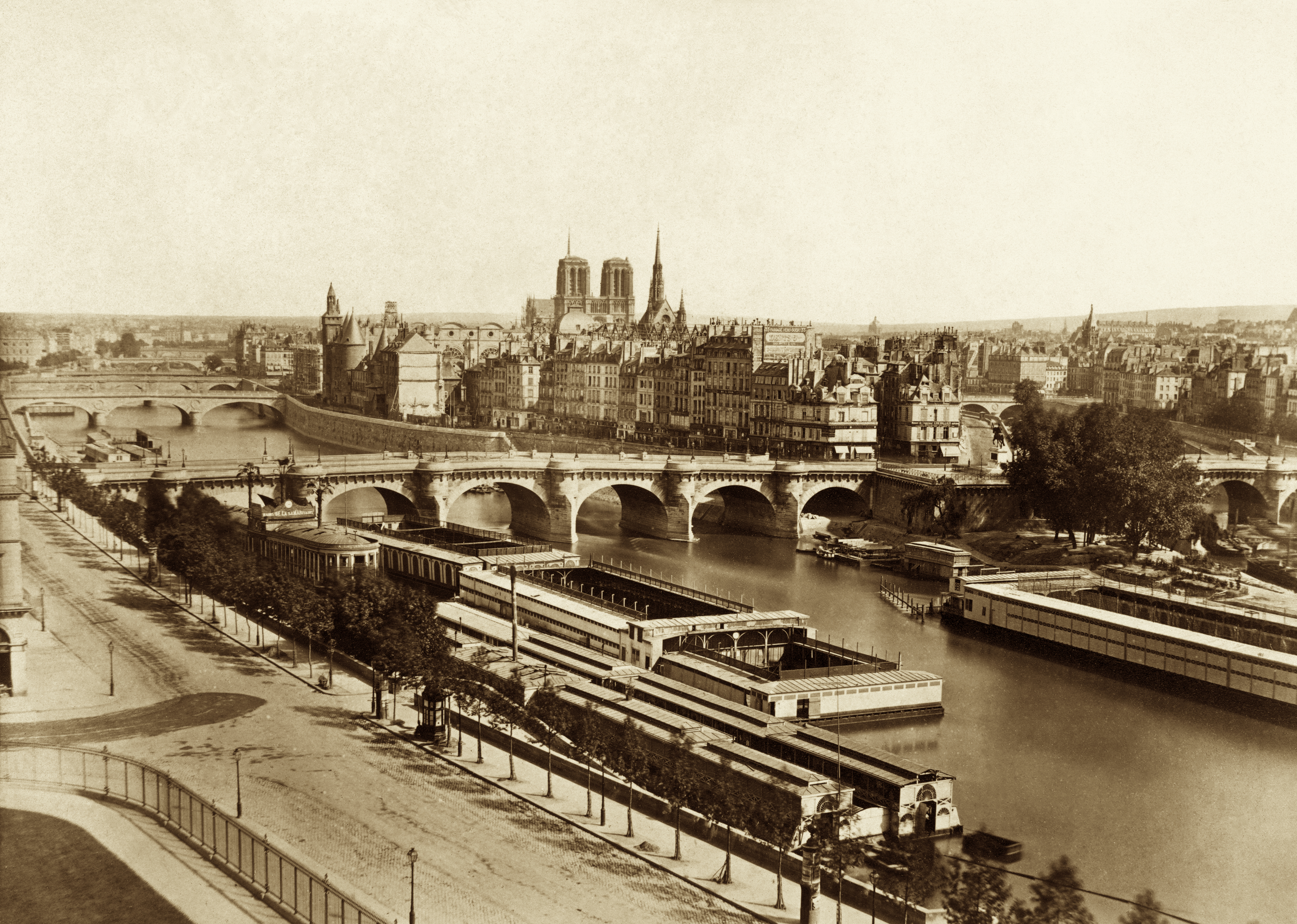 Seine with bridges, in the back Notre-Dame de Paris